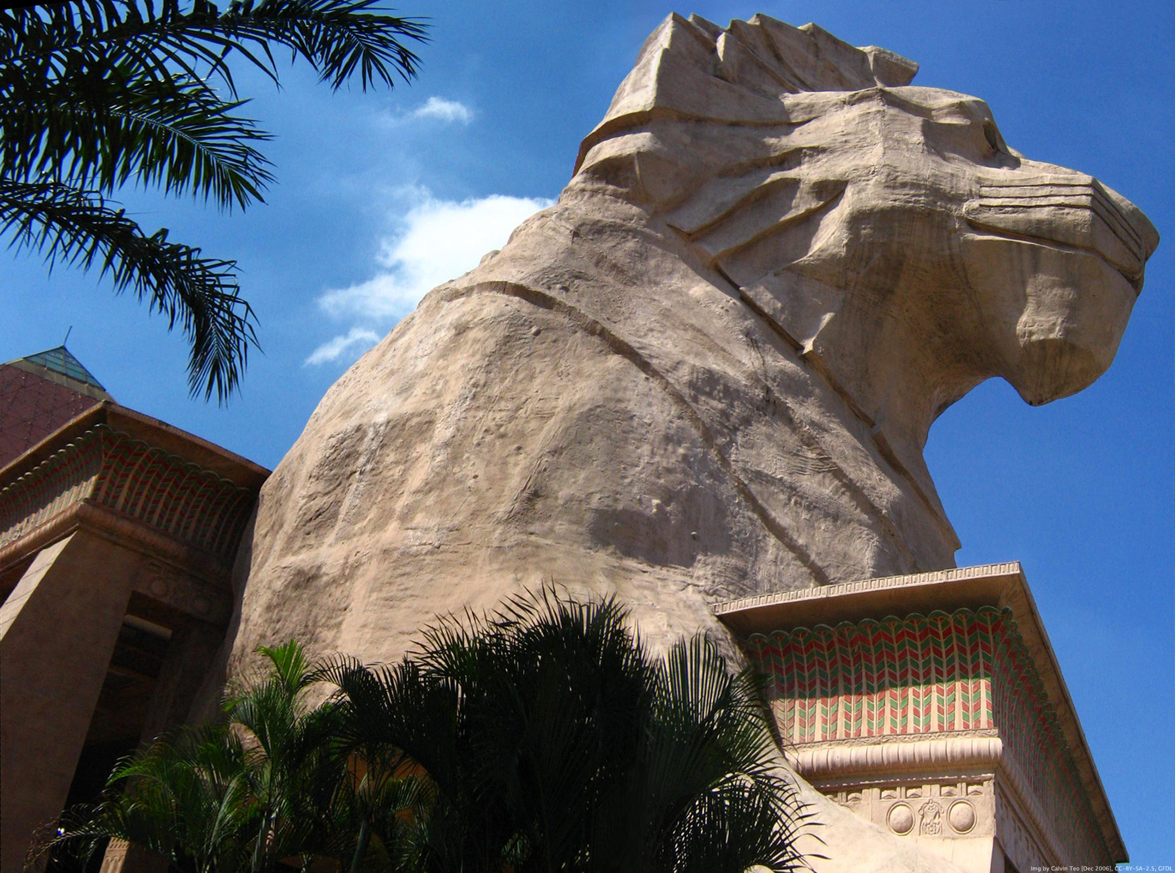 Motiff of a lion, at the Sunway Pyramid on the outskirts of Kuala Lumpur, Malaysia